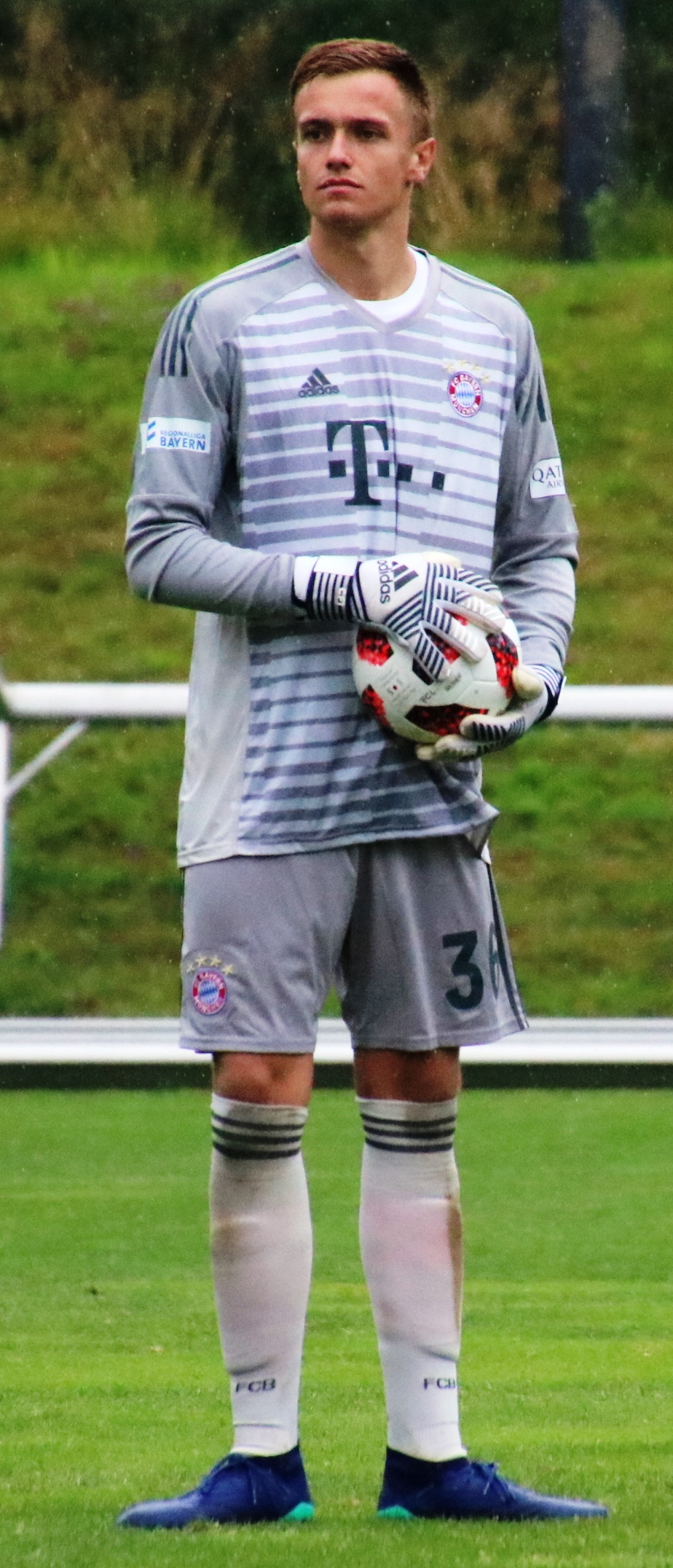 preseasonnmatch 2018/19